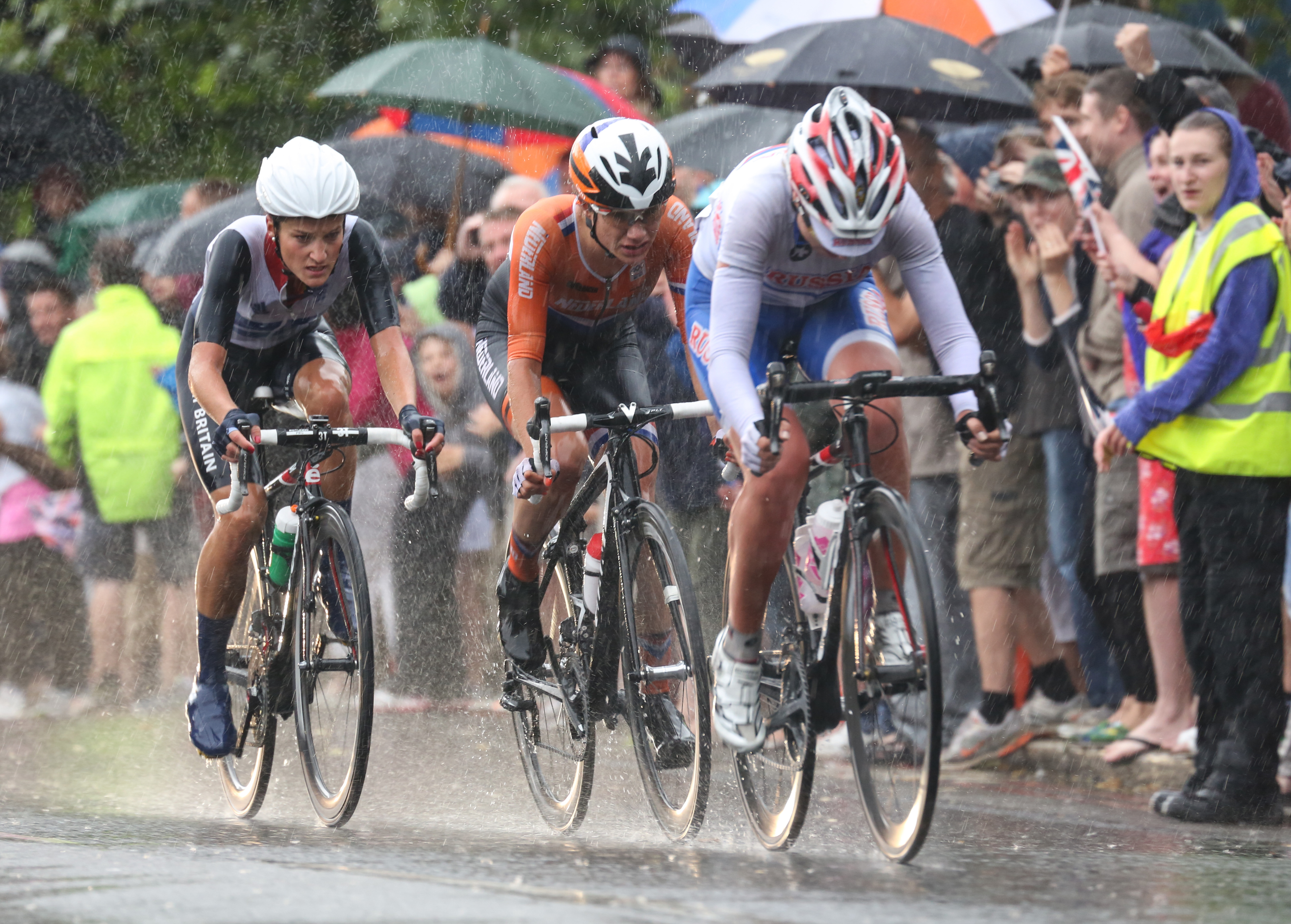 The three medal winners of the Womens Olympic Road Race in London as they pass by Upper Richmond Road in South West London, approximately 10km from the finish. From left to right: Lizzie Armitstead, Marianne Vos and Olga Zabelinskaya.